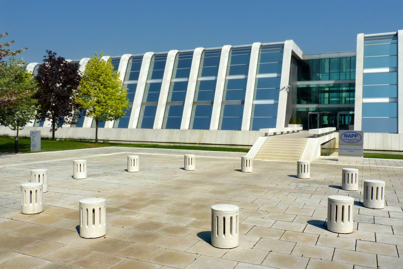 Cambridge Science Park Napp Pharmaceutical Group building in April 2011.